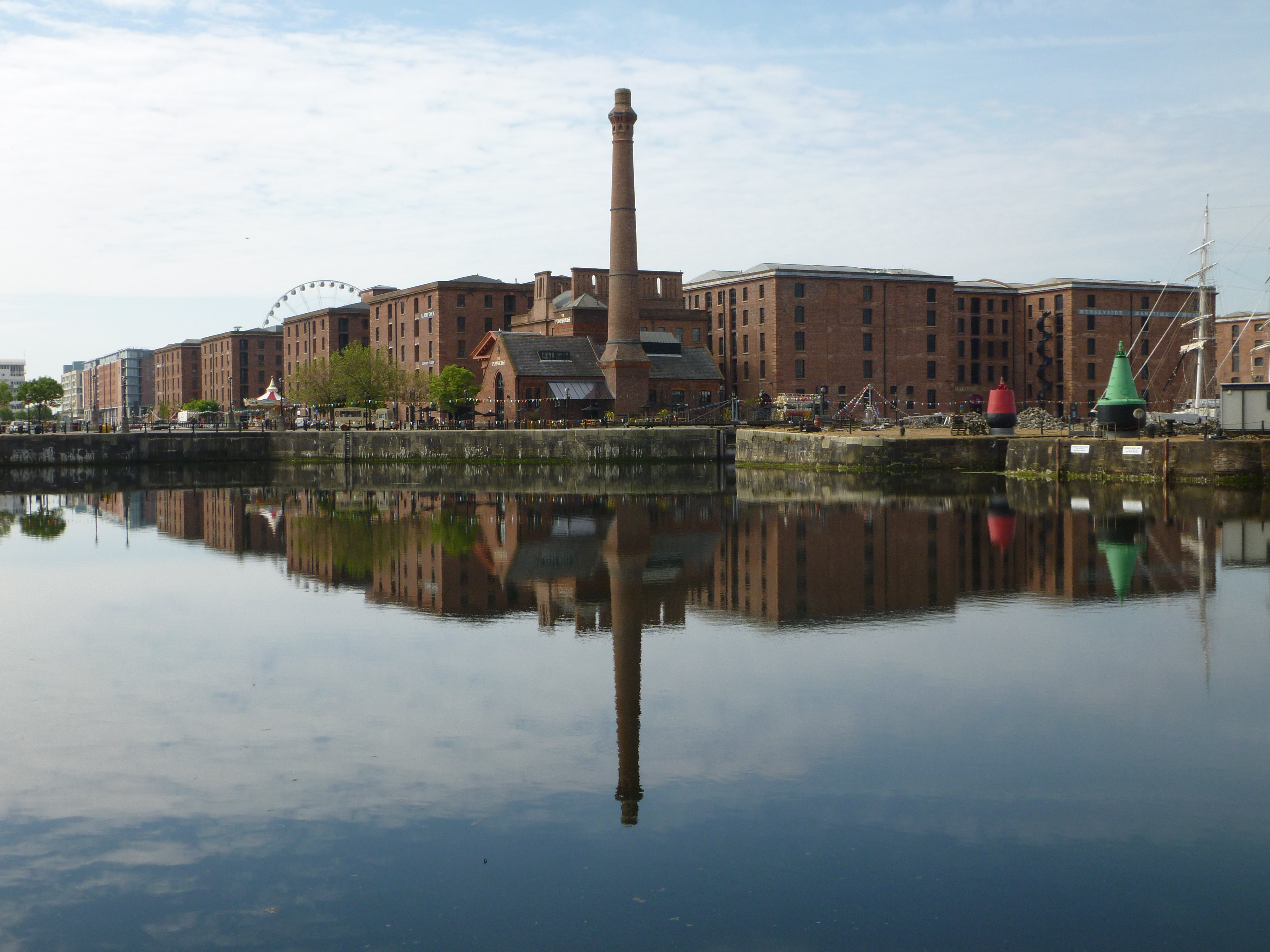 Buildings at Liverpool's Albert Dock, including The Pumphouse pub (centre), reflected in the water of Canning Dock, taken from Strand Street